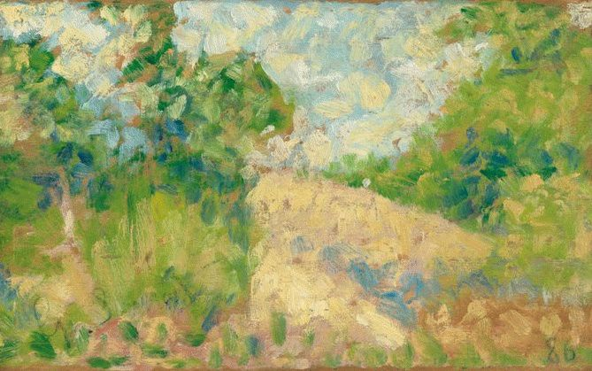 Champs à Barbizon (Field in Barbizon) by Georges Seurat, c 1882, oil on panel, 7 ½ by 9 ½ in